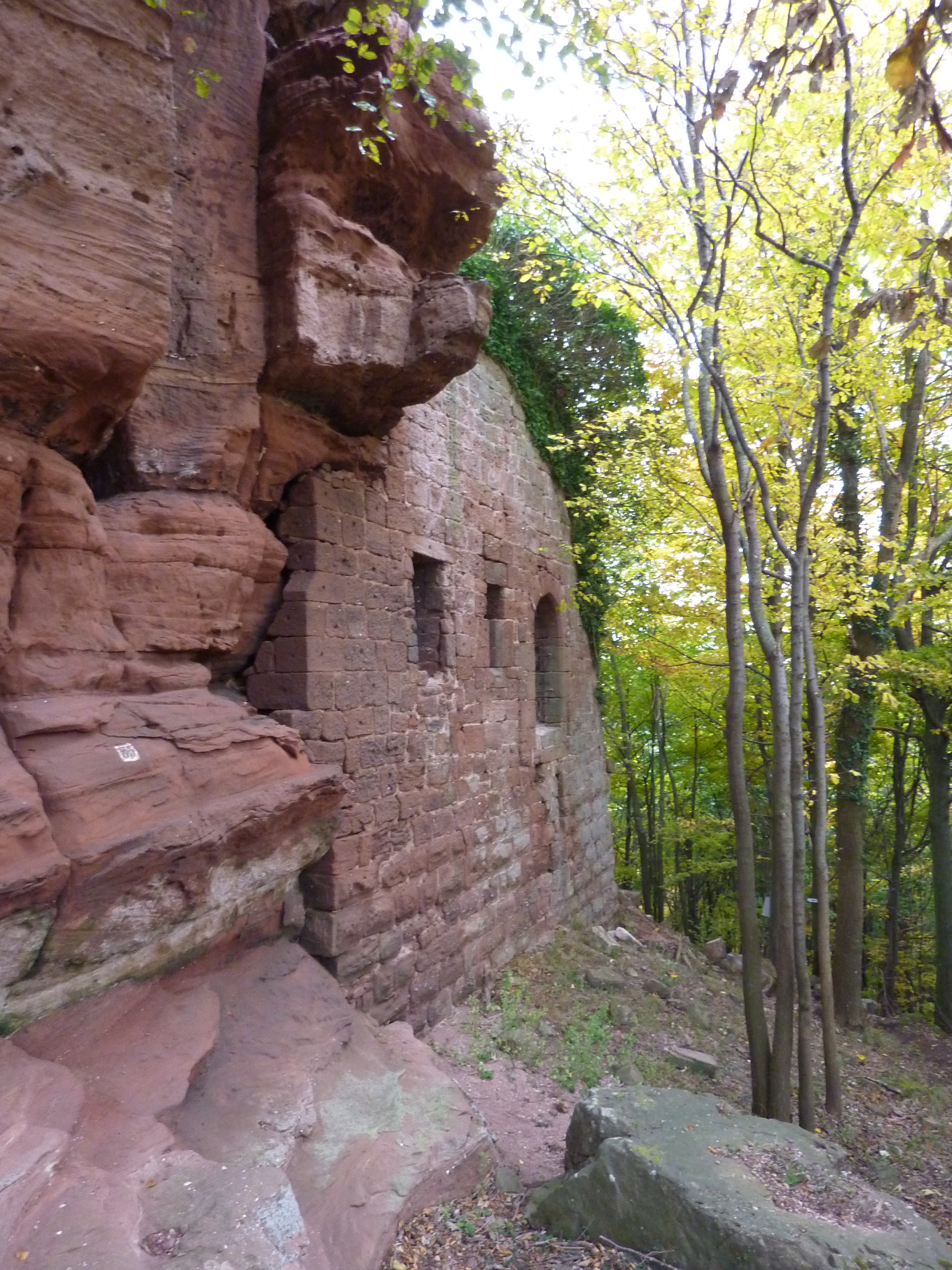 Courtyard South wall of the castle of Grand Ochsenstein, Bas-Rhin, France.